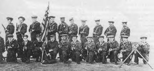 Picture of the 1898 landing team in Guanica, Puerto Rico El desembarco en Guánica